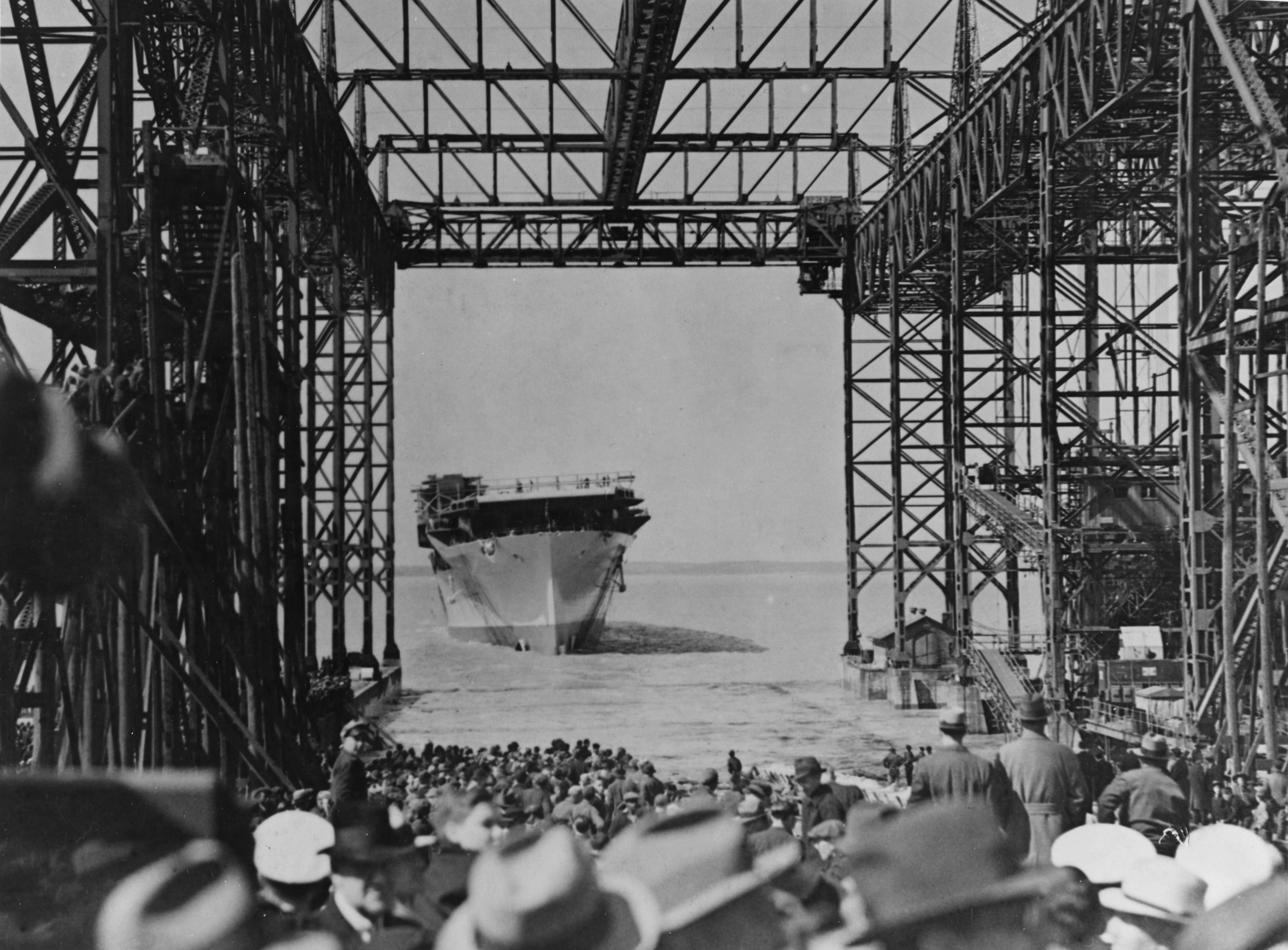 The U.S. Navy aircraft carrier USS Yorktown (CV-5) afloat immediately after launching, at the Newport News Shipbuilding and Dry Dock Company, Newport News, Virginia (USA), 4 April 1936.